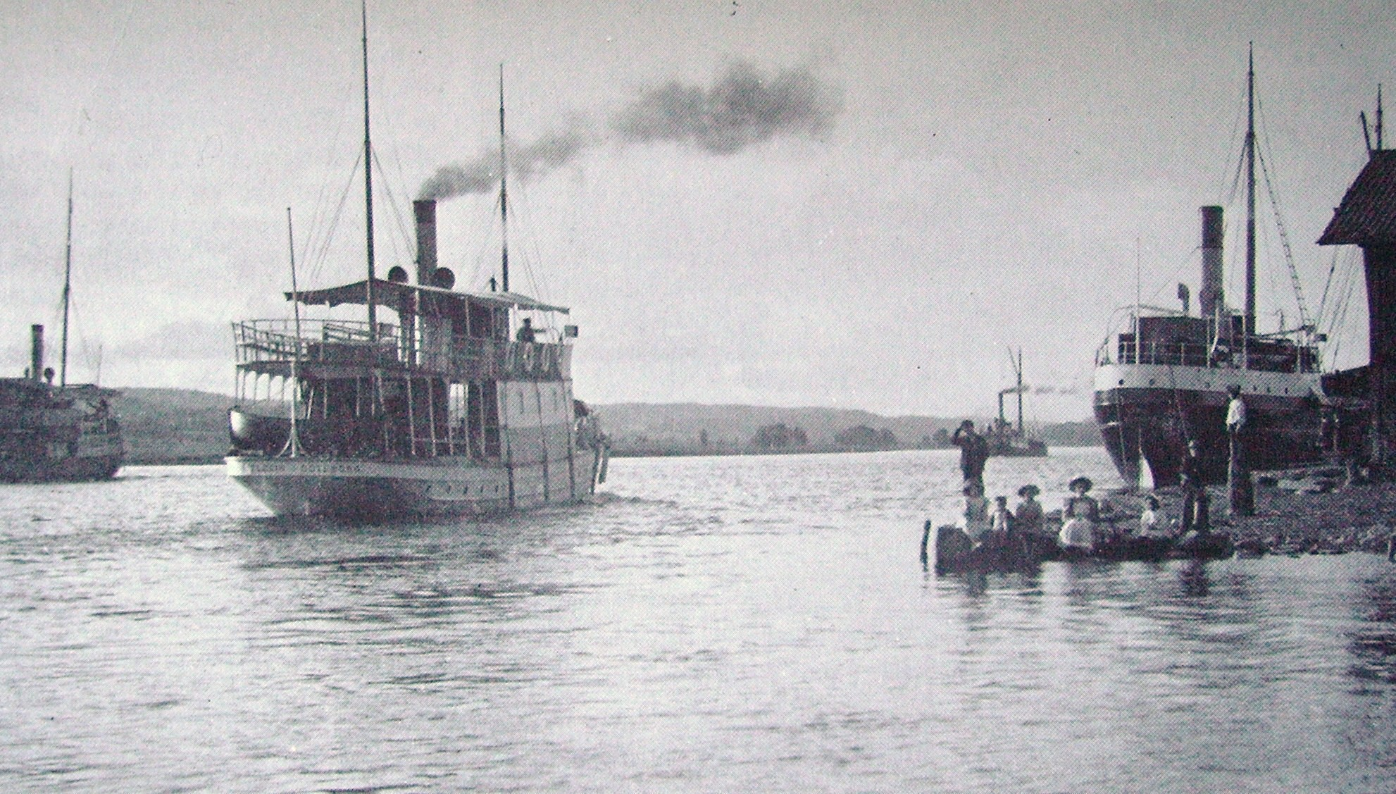 Picture of ship Tessin leaving Lödöse. To the right Lödöse Varf's steamer Lisa